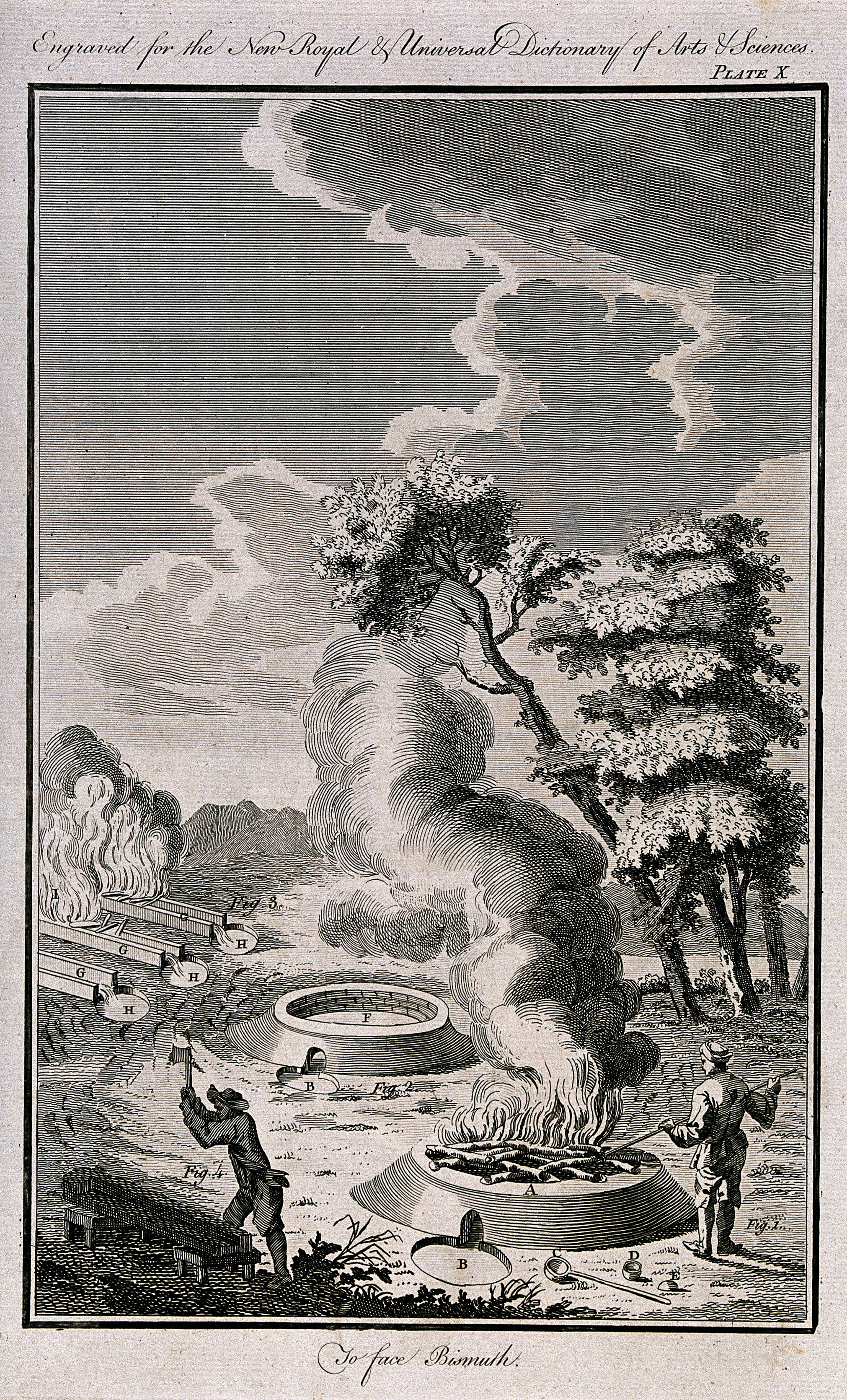 Processing of bismuth. Etching. Iconographic Collections